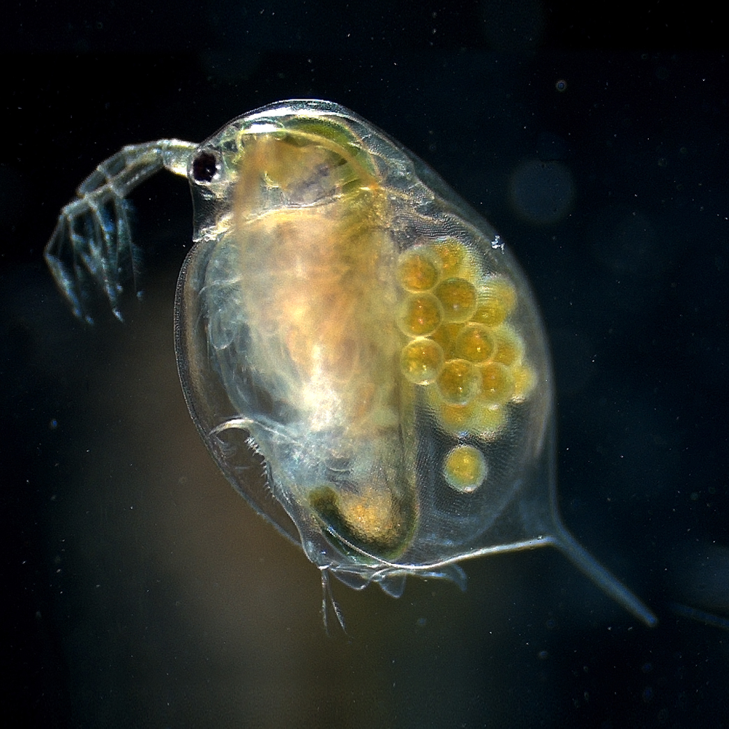 Female adult of the water flea Daphnia magna